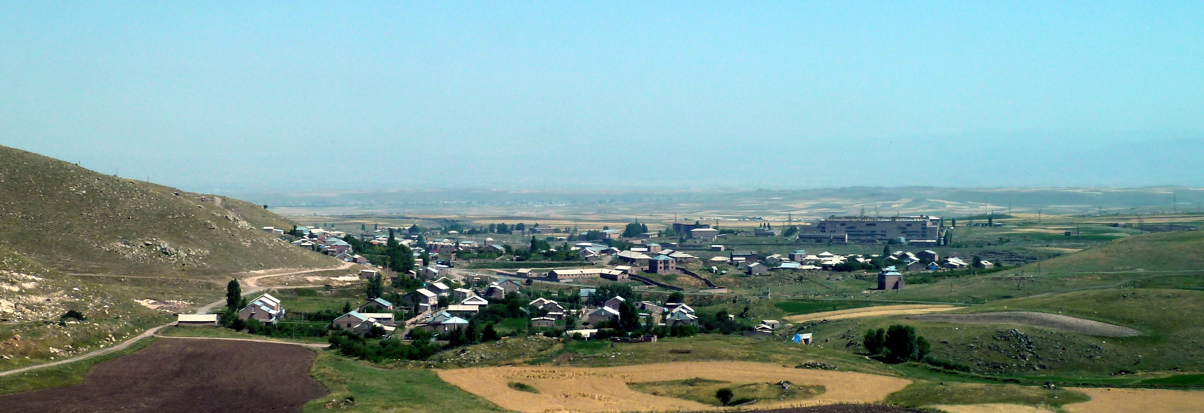 Dzorakap (on front) and Maralik (on back) from M-1 highway